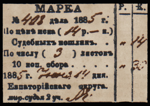 Russia. Judicial stamp